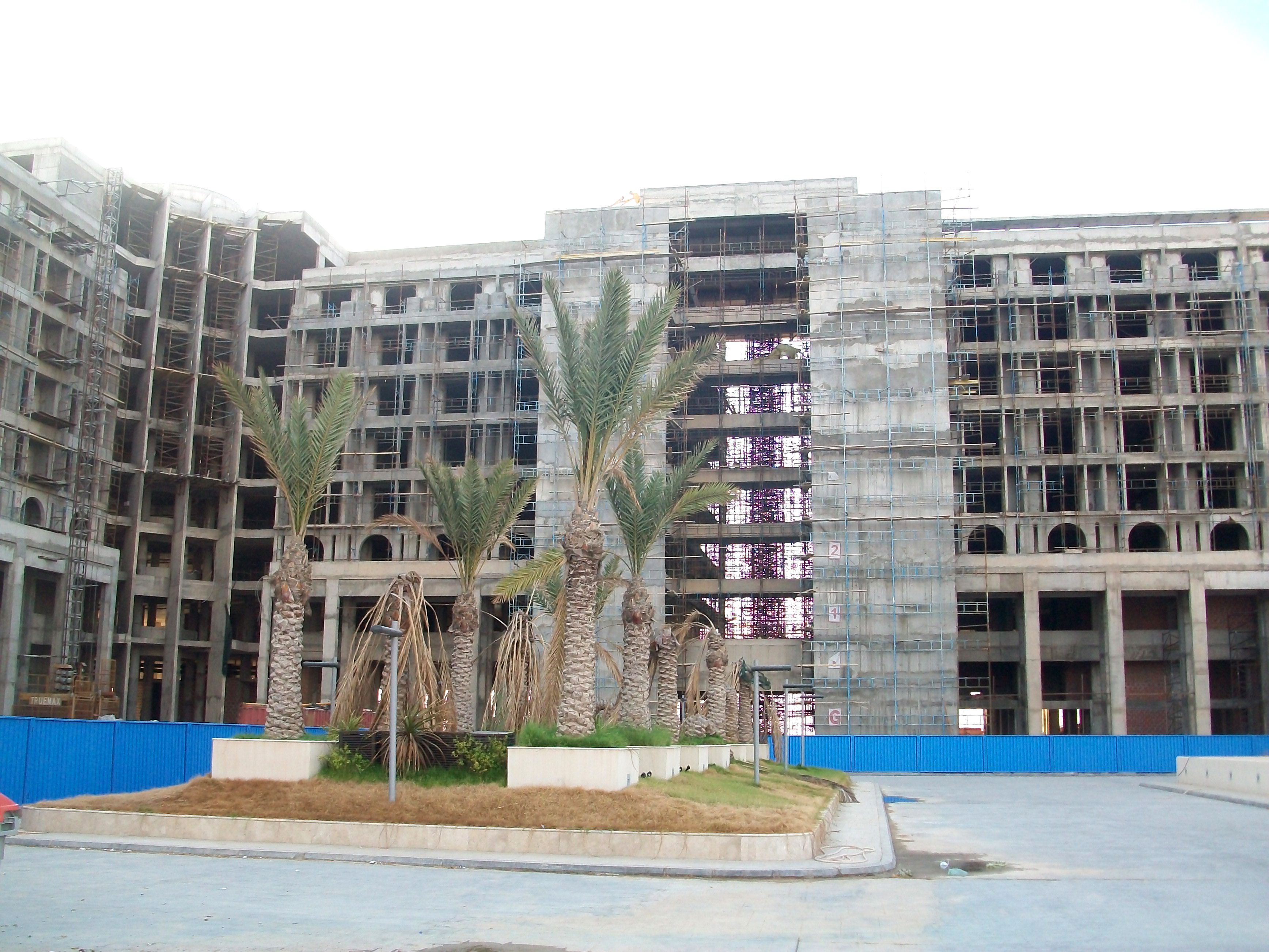 The Sheraton Hotel under construction in Libya's capital Tripoli as of July 2012.